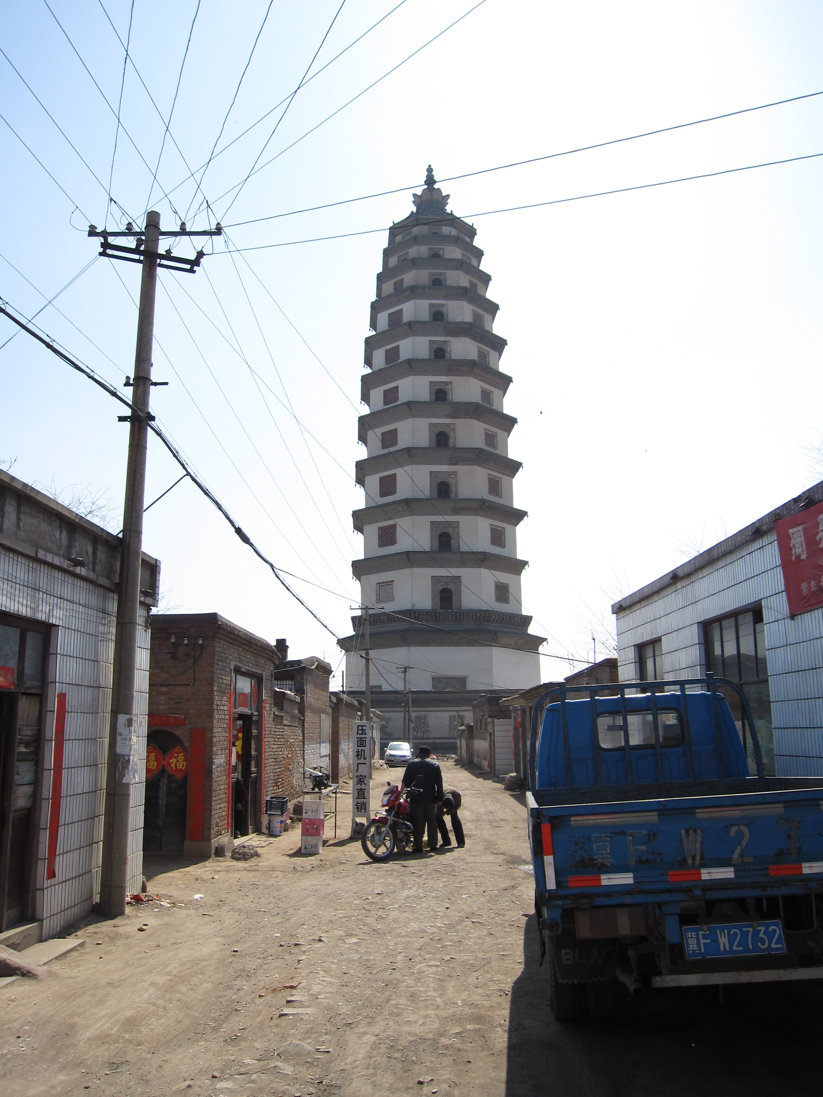 The Liaodi Pagoda of Kaiyuan Temple in Dingzhou, China from the rear (looking south)